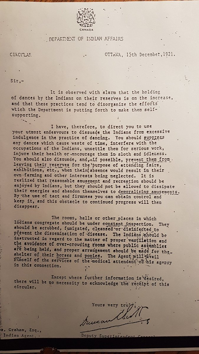 Letter from head of Canada Department Of Indian Affairs To Staff